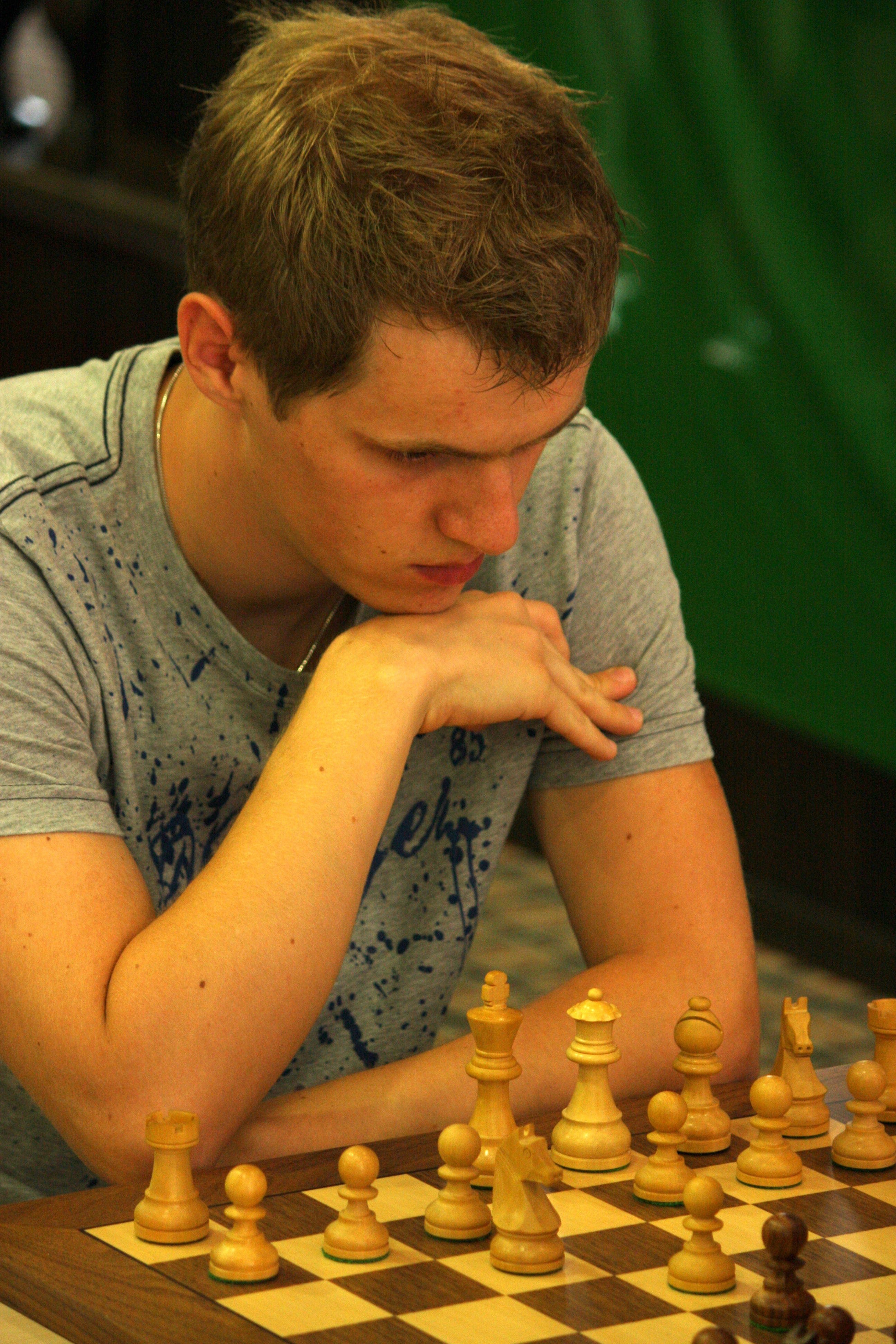 Luka Lenič, Slovene chess player